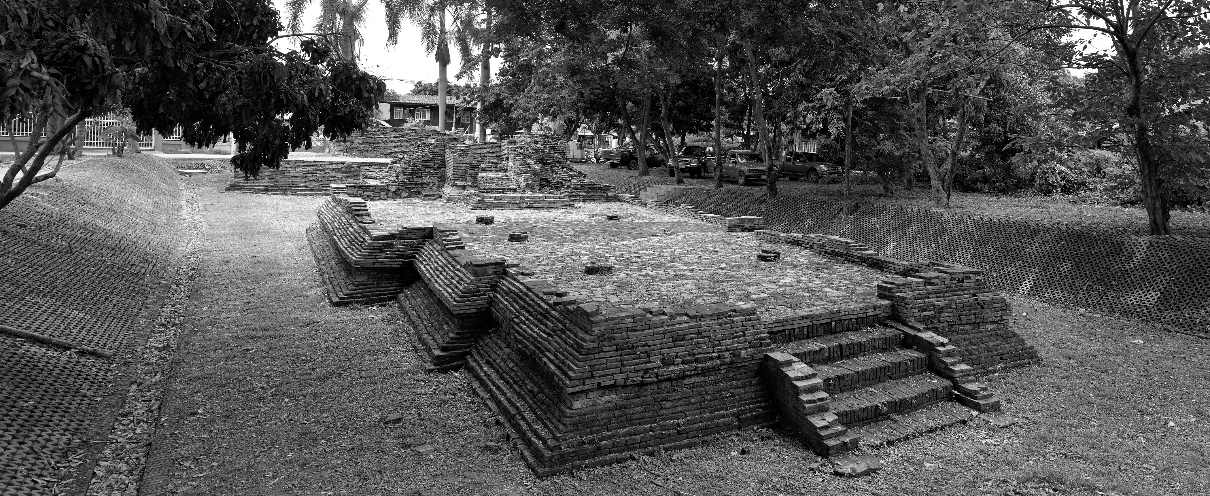 View of Wat That Noi (or 'Little Stupa Temple'), also known as simply Wat Noi ('Little Temple'), one of the smaller sites within the Wiang Kum Kam archaeological group outside Chiang Mai in northern Thailand.